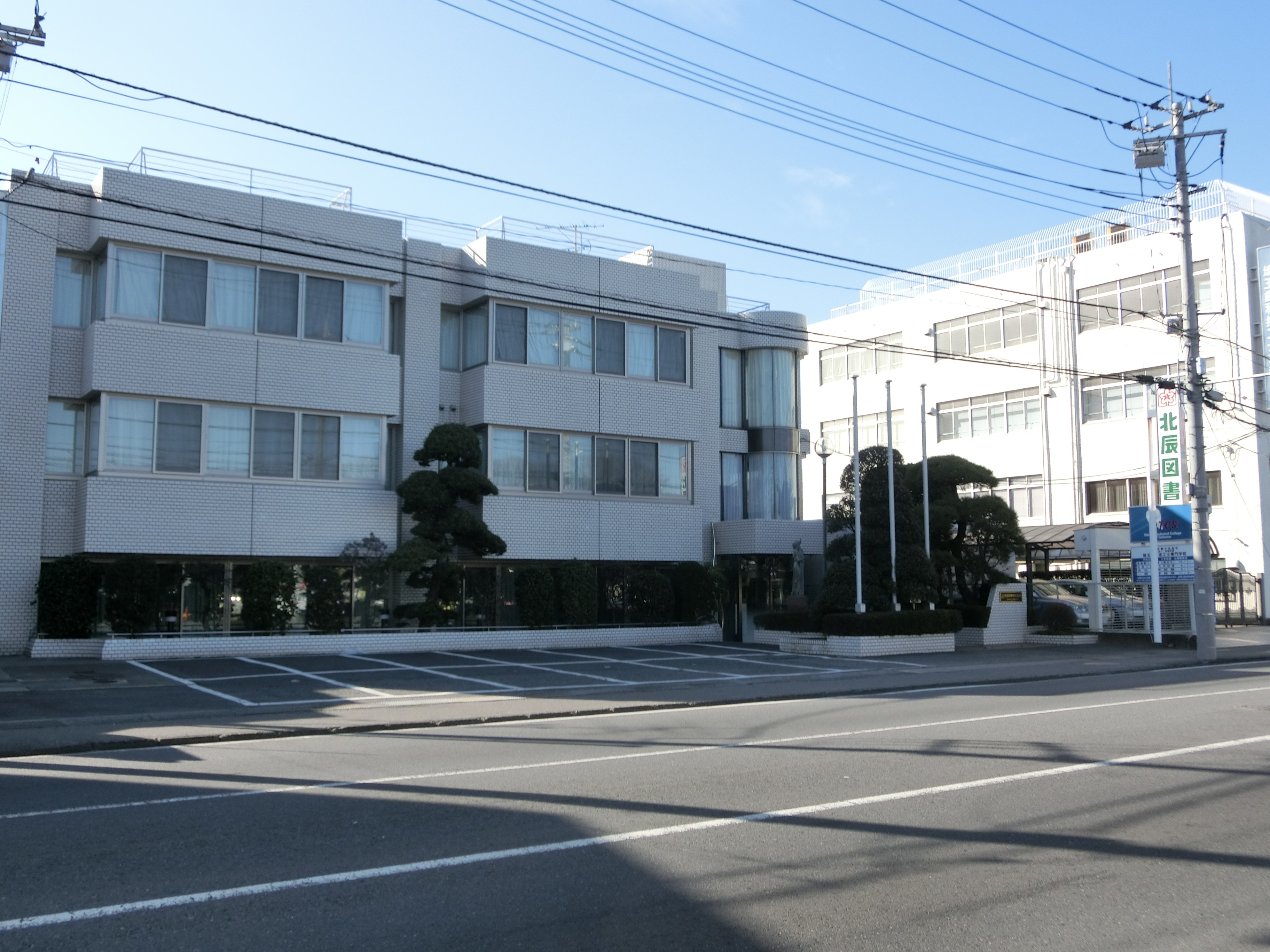 Hokushin Tosho Head Office